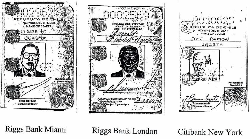 Pinochet Account Identification, appendix to Money Laundering and Foreign Corruption: Enforcement and Effectiveness of the Patriot Act – Supplemental Staff Report on U.S. Accounts Used by Augusto Pinochet